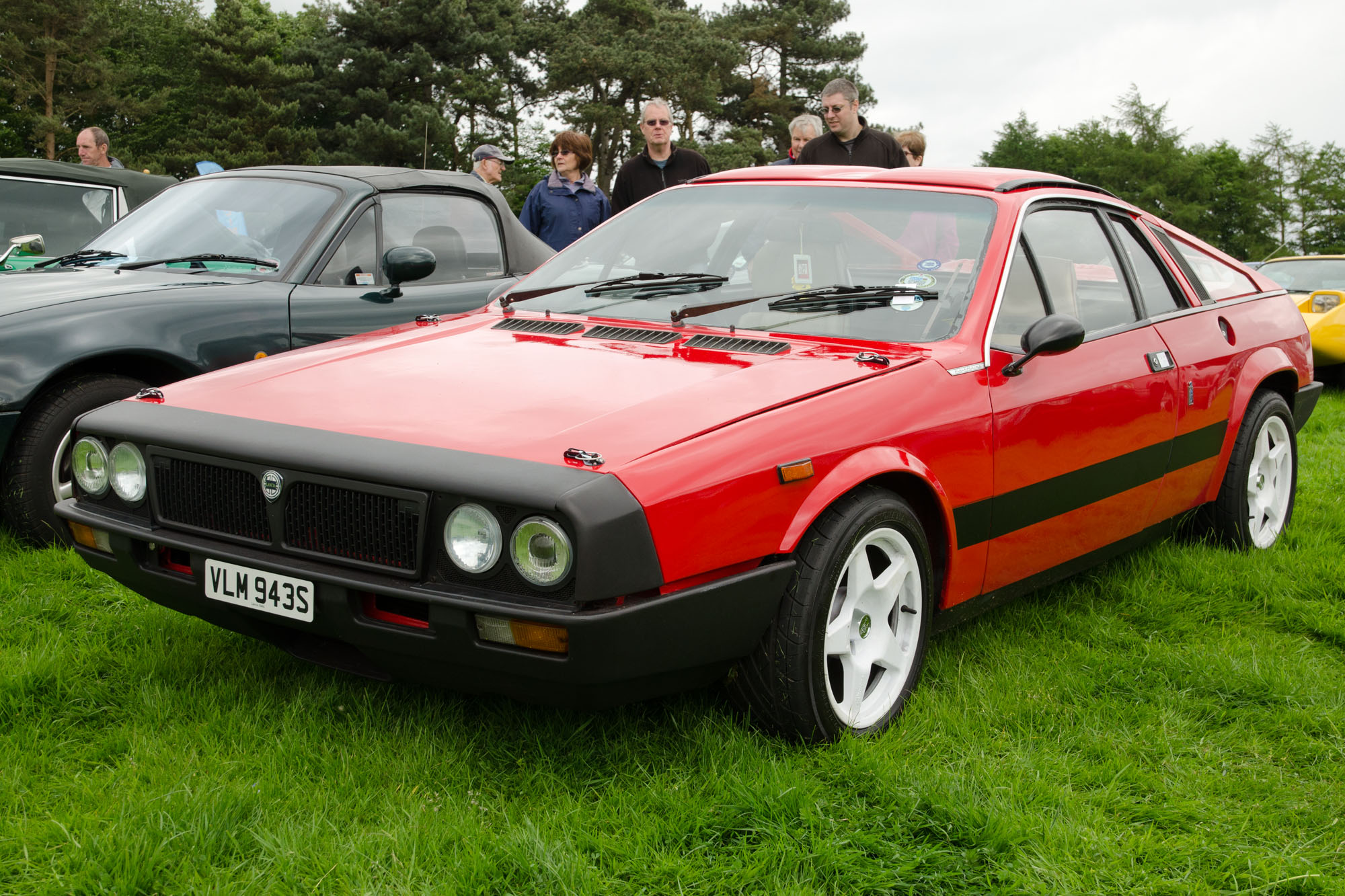 Capesthorne Hall Classic Car Show 25/05/2014